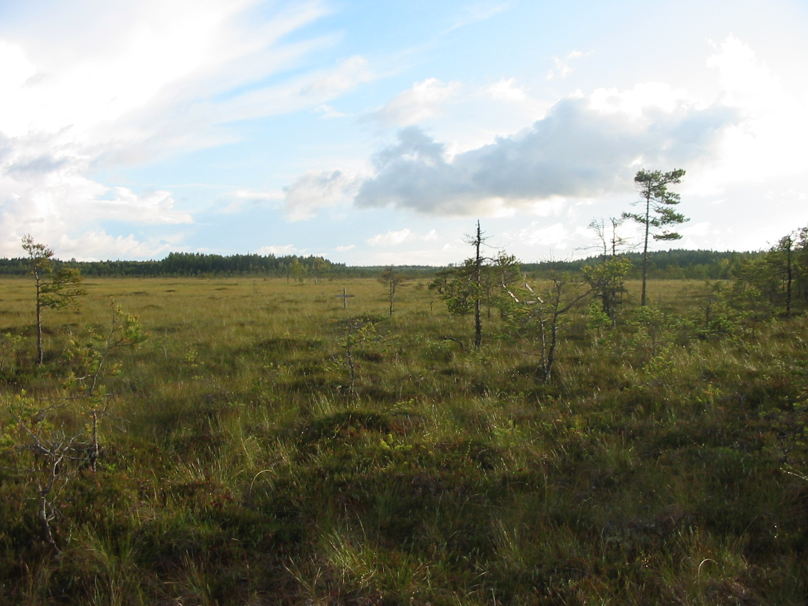 Eksyssuo in Loimaa, Finland, at the site of the true events that the radio drama "Eksyssyuon lapset" by Pirkko Jaakola was based on